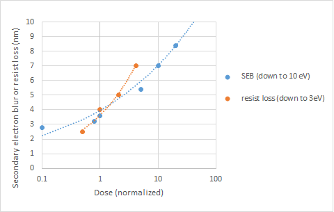 The secondary electron blur can increase signficantly with increasing dose. References.: (Secondary electron blur) P. de Schepper et al., Proc. SPIE 9425, 942507 (2015); (Resist loss) A. Narasimhan et al., "Mechanisms of EUV Exposure: Internal Excitation and Electron Blur", EUV Symposium 6/16/2016, p.11.